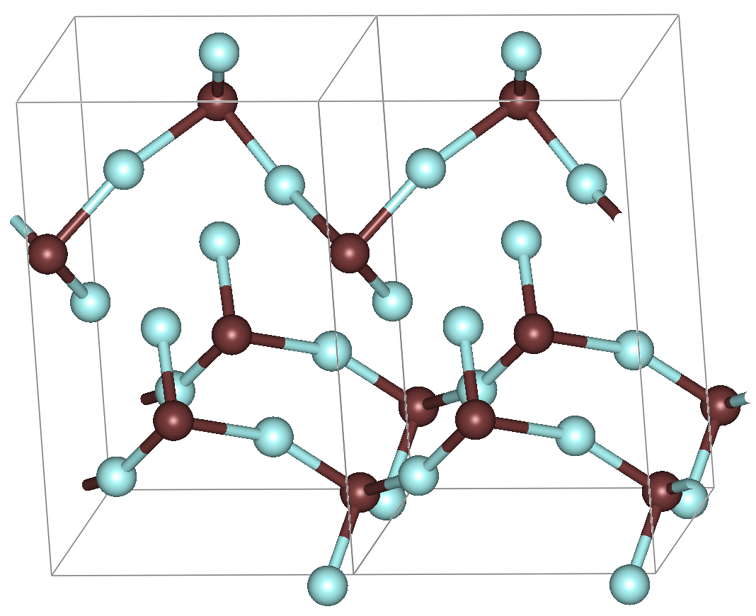 Crystal structure of germanium(II) fluoride. Brown atoms are germanium. (J. Chem. Soc. A, 1966, 30-33, Trotter J., Akhtar M., Bartlett N.